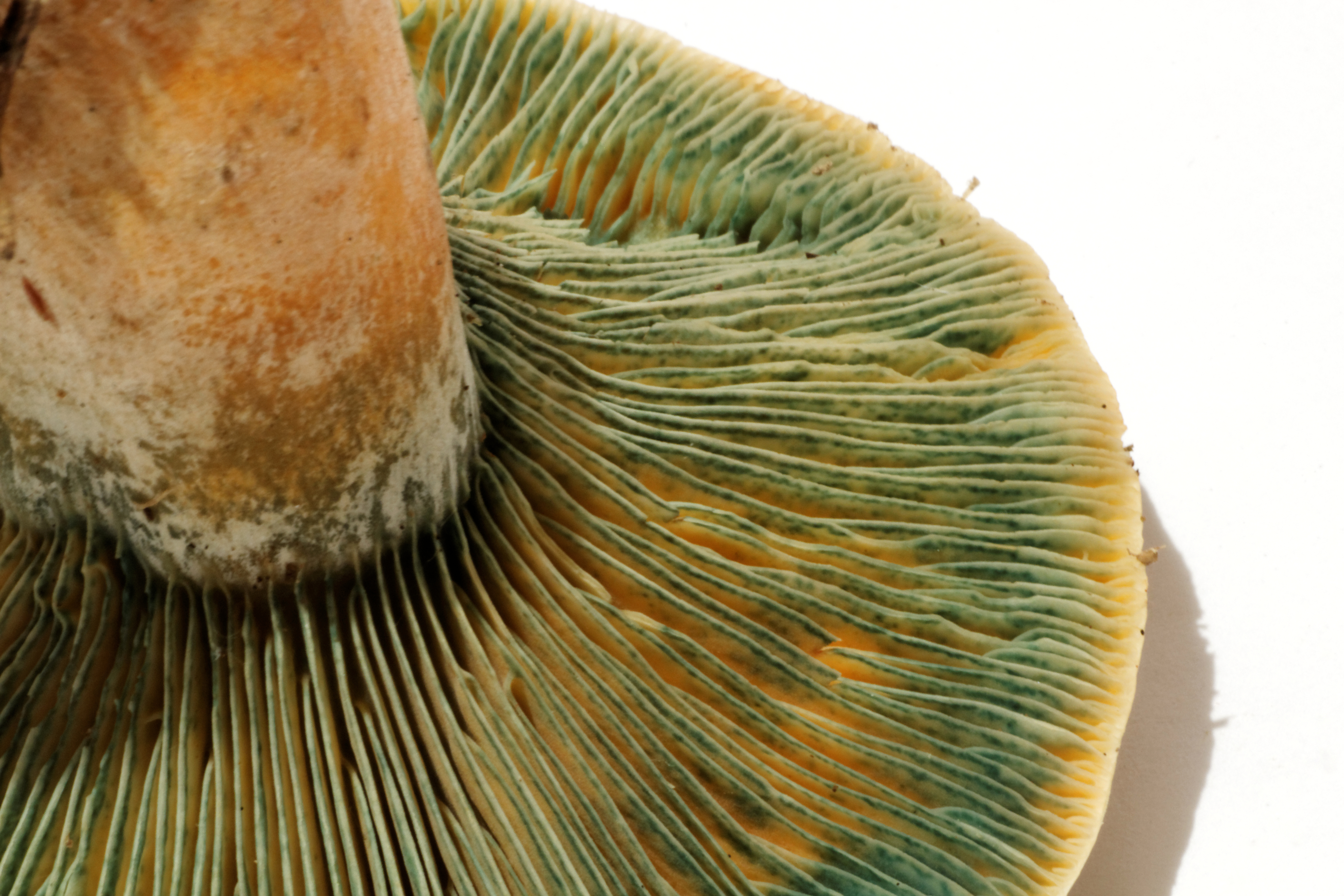 False saffron milkcap (Lactarius deterrimus).